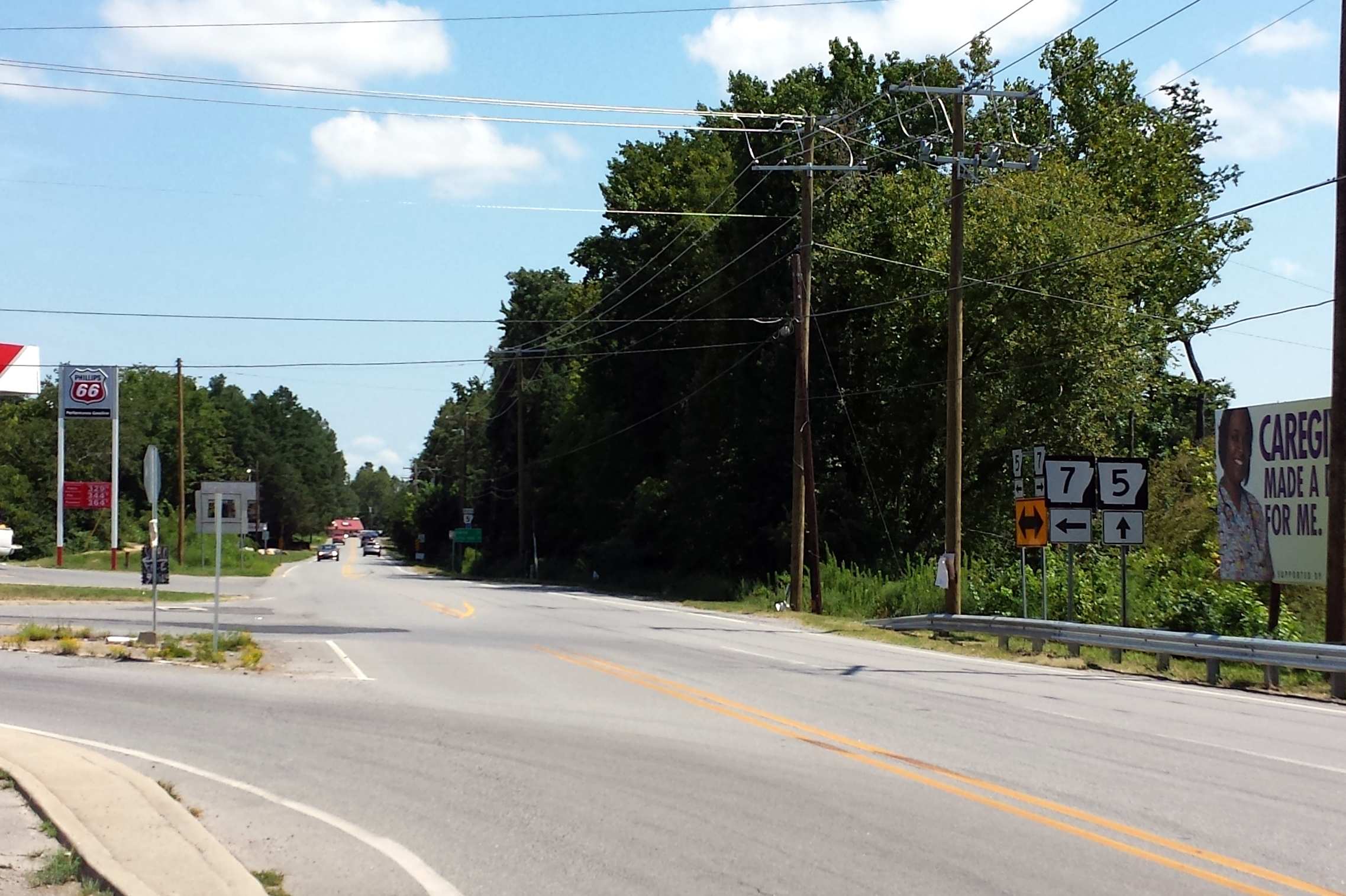 Highway 5 and Highway 7 split near Hot Springs, AR